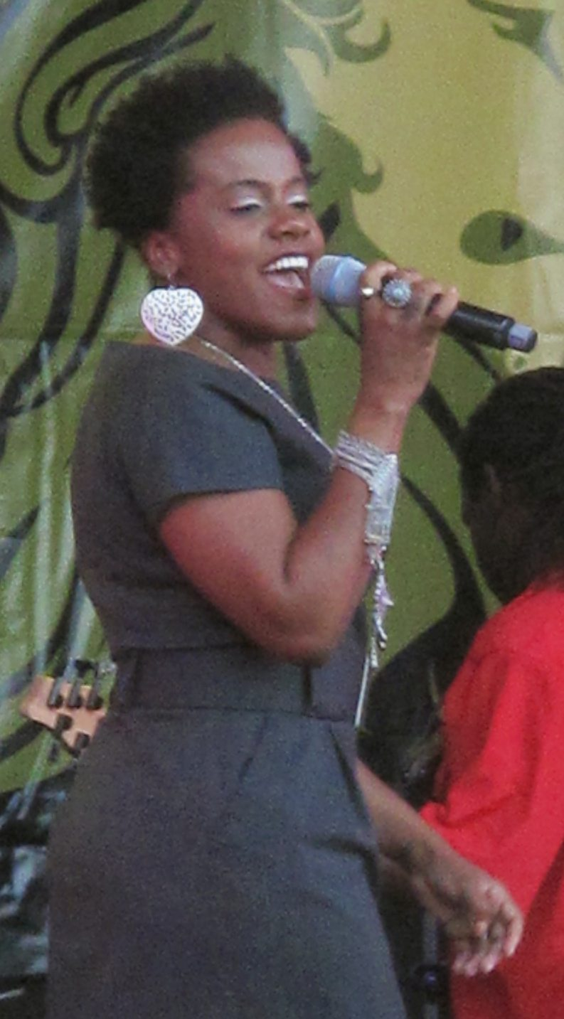 Reggae singer Etana performing at Uppsala Reggae Festival, 2009